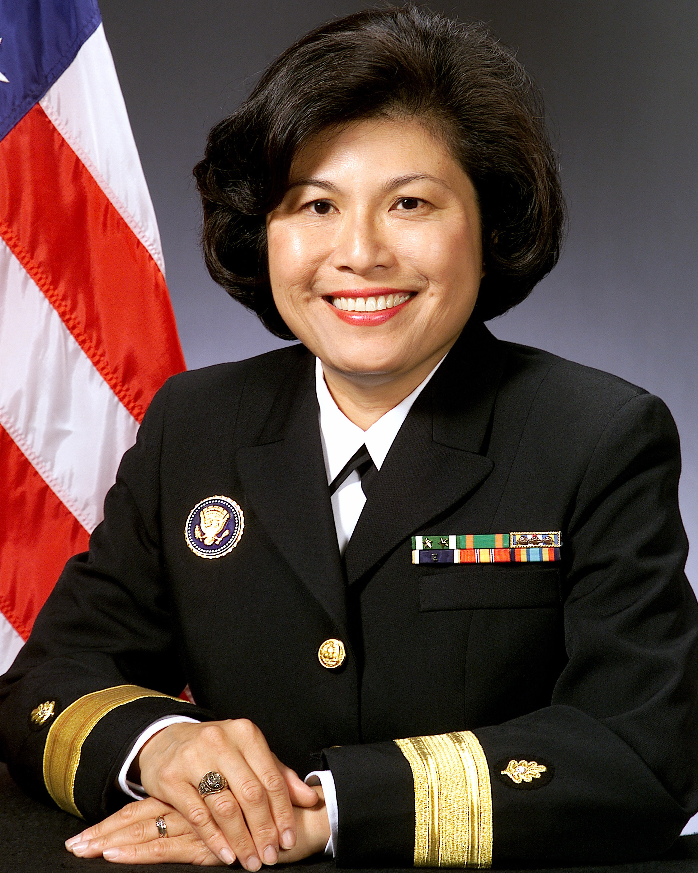 Rear Admiral (lower half) Eleanore Connie Mariano, USN.